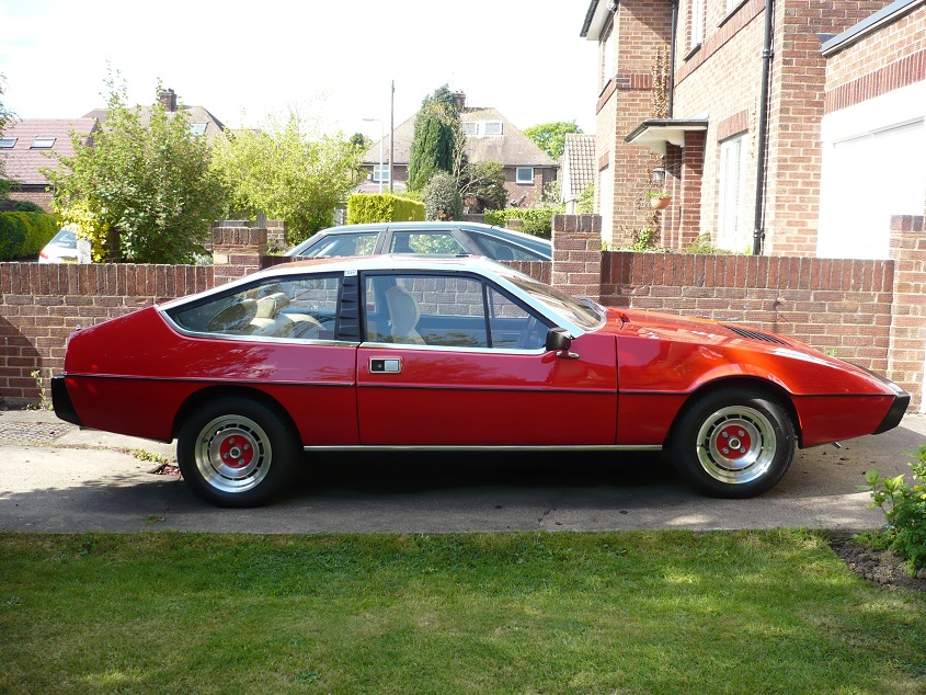 Lotus Éclat S1